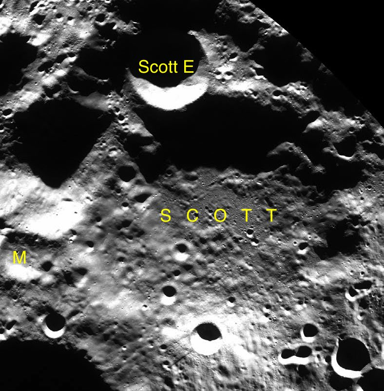 Part of the chart LAC-144 used for the presentation